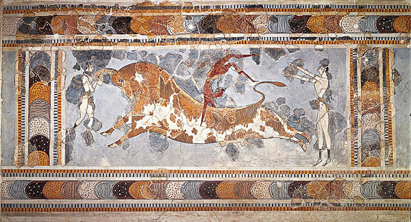 Famous Minoan fresco from palace of Knossos, currently in Herakleion museum